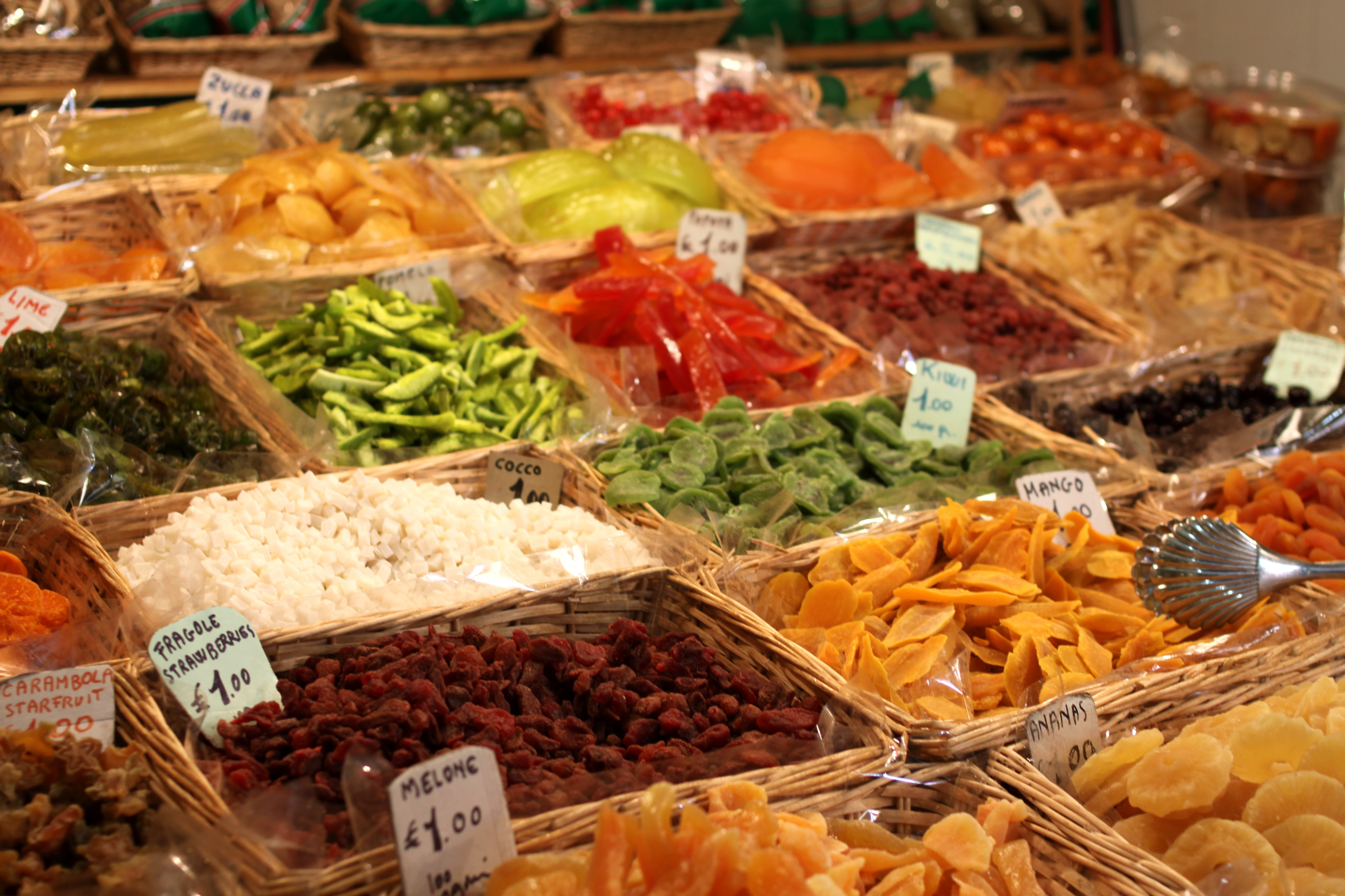 in Florence